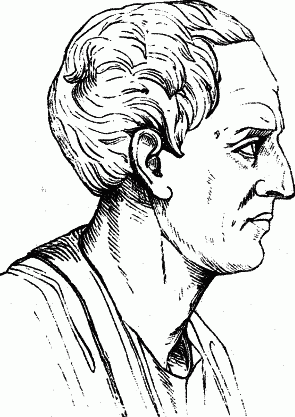 Cicero